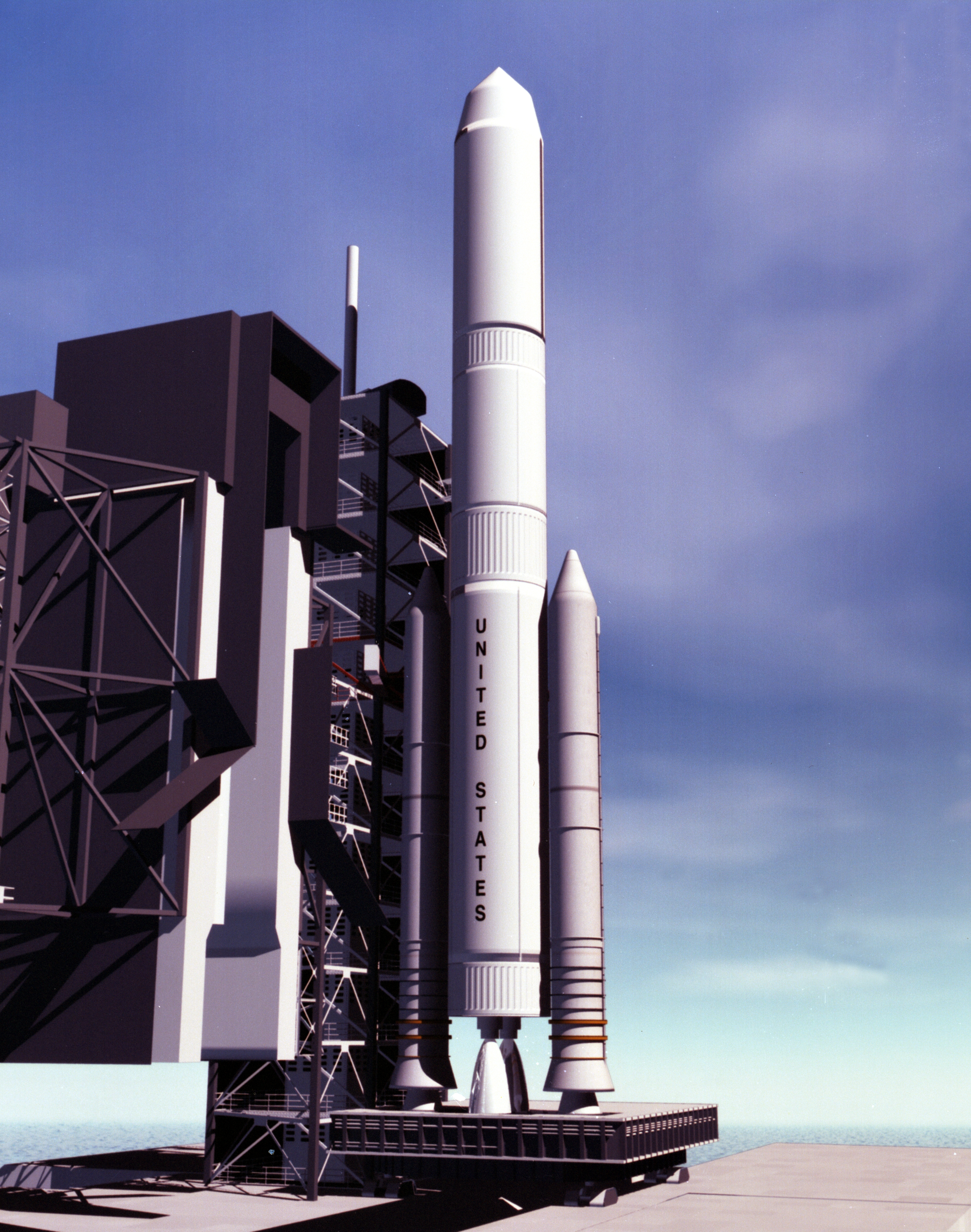 A computer generated concept of a Magnum Booster with fly-back boosters.